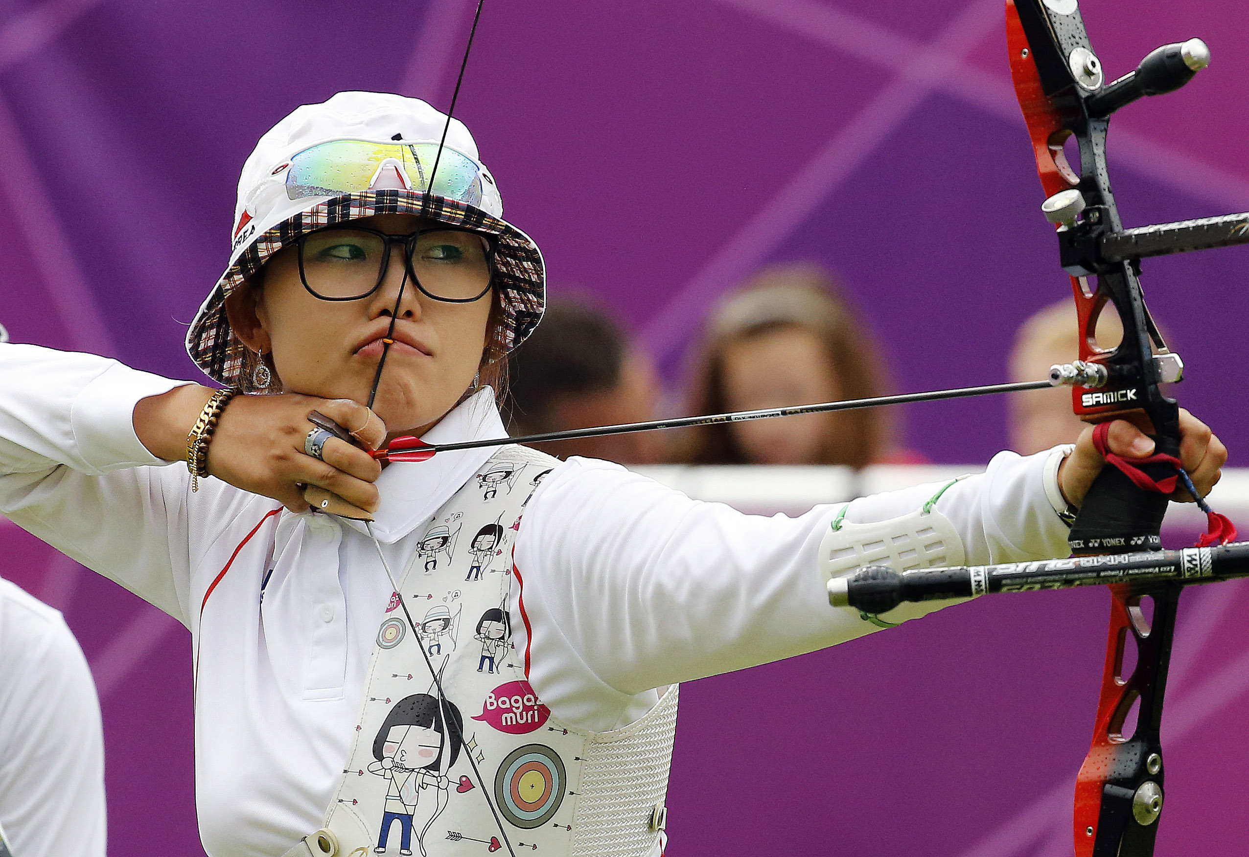 2012 London Olympic Games Korea Archery Women's Team won the gold medal 2012.7.30. Photo by Korean Olympic Committee Ministry of Culture, Sports and Tourism Korean Culture and Information Service 2012 런던 올림픽 한국 여자양궁 대표팀 단체전 금메달 획득 사진제공 - 대한체육회 문화체육관광부 해외문화홍보원